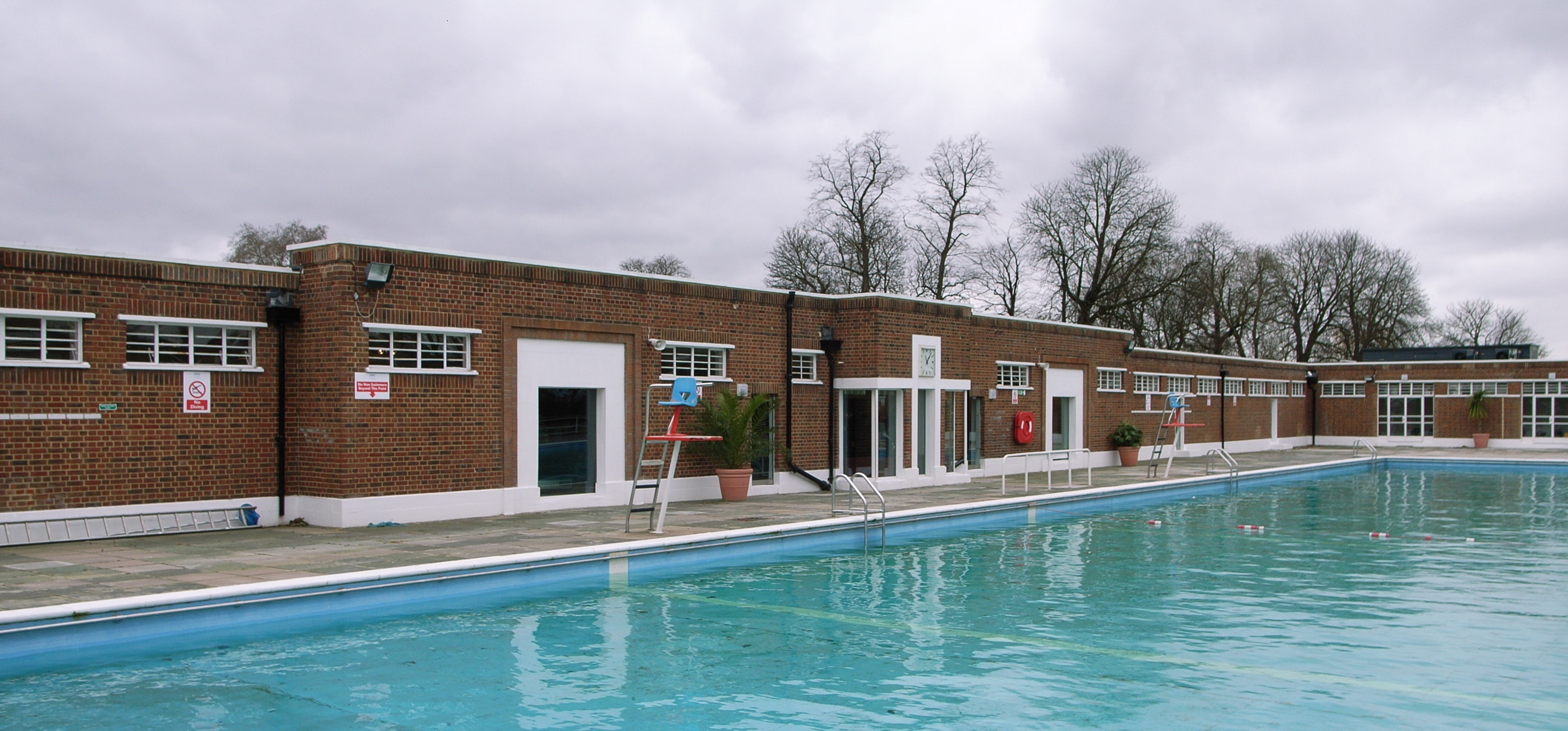 Brockwell Lido (1936-7) by H.A. Rowbotham and T.L. Smithson of LCC Parks Department Architects. Recently successfully refurbished by Pollard, Thomas and Edwards. This was a particular highlight of the tour - it looked really lovely, even on an overcast March day, so it must be quite something in the middle of summer. Photo taken on a walk around Brixton and Herne Hill with the 20th Century Society on 8th March 2008.